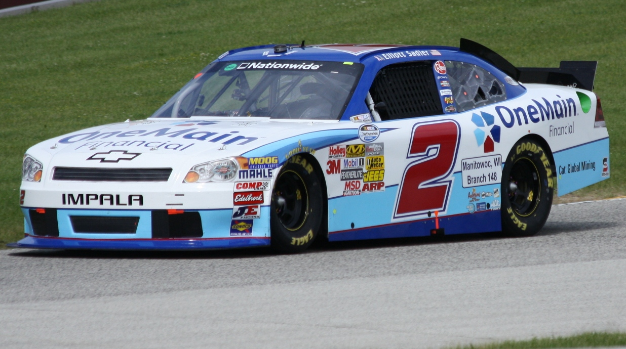 NASCAR driver Elliott Sadler racing his stock car at Road America at the 2011 Bucyros 200 Nationwide Series race.